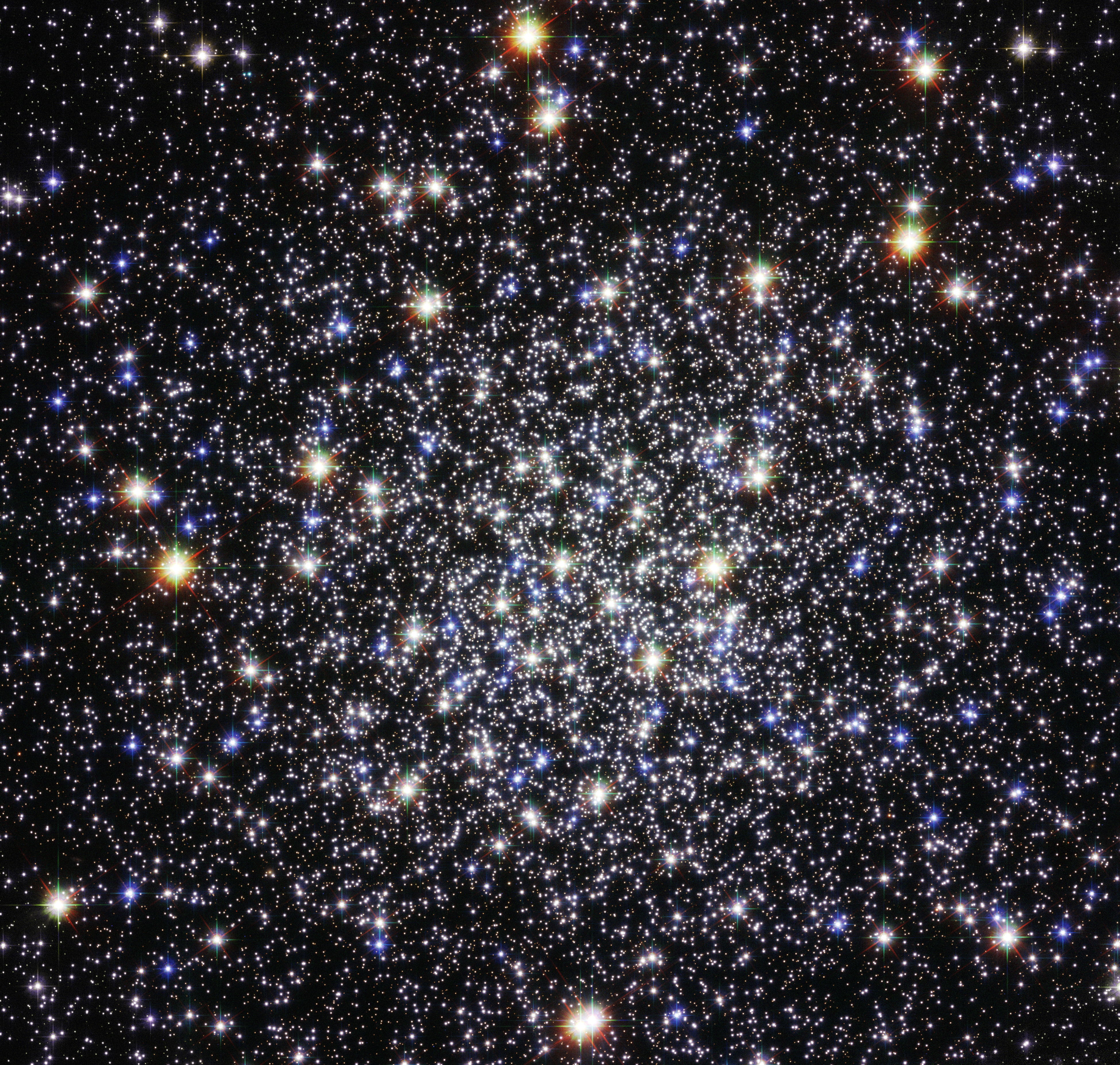 The high concentration of stars within globular clusters, like Messier 12, shown here in an image from the NASA/ESA Hubble Space Telescope, makes them beautiful photographic targets. But the cramped living quarters in these clusters also makes them home to exotic binary star systems where two stars are locked in tight orbits around each other and matter from one is gobbled up by its companion, releasing X-rays. It is thought that such X-ray binaries form from very close encounters between stars in crowded regions, such as globular clusters, and even though Messier 12 is fairly diffuse by globular cluster standards, such X-ray sources have been spotted there. Astronomers have also discovered that Messier 12 is home to far fewer low-mass stars than was previously expected (eso0604). In a recent study, astronomers used the European Southern Observatory’s Very Large Telescope at Cerro Paranal, Chile, to measure the brightness and colours of more than 16 000 of the globular’s 200 000 stars. They speculate that nearly one million low-mass stars have been ripped away from Messier 12 as the globular has passed through the densest regions of the Milky Way during its orbit around the galactic centre. It seems that the serenity of this view of Messier 12 is misleading and the object has had a violent and disturbed past. Messier 12 lies about 23 000 light-years away in the constellation of Ophiuchus (The Serpent Bearer). This image was taken using the Wide Field Channel of Hubble’s Advanced Camera for Surveys. The colour image was created from exposures through a blue filter (F435W, coloured blue), a red filter (F625W, coloured green) and a filter that passes near-infrared light (F814W coloured red). The total exposure times were 1360 s, 200 s and 364 s, respectively. The field of view is about 3.2 x 3.1 arcminutes.